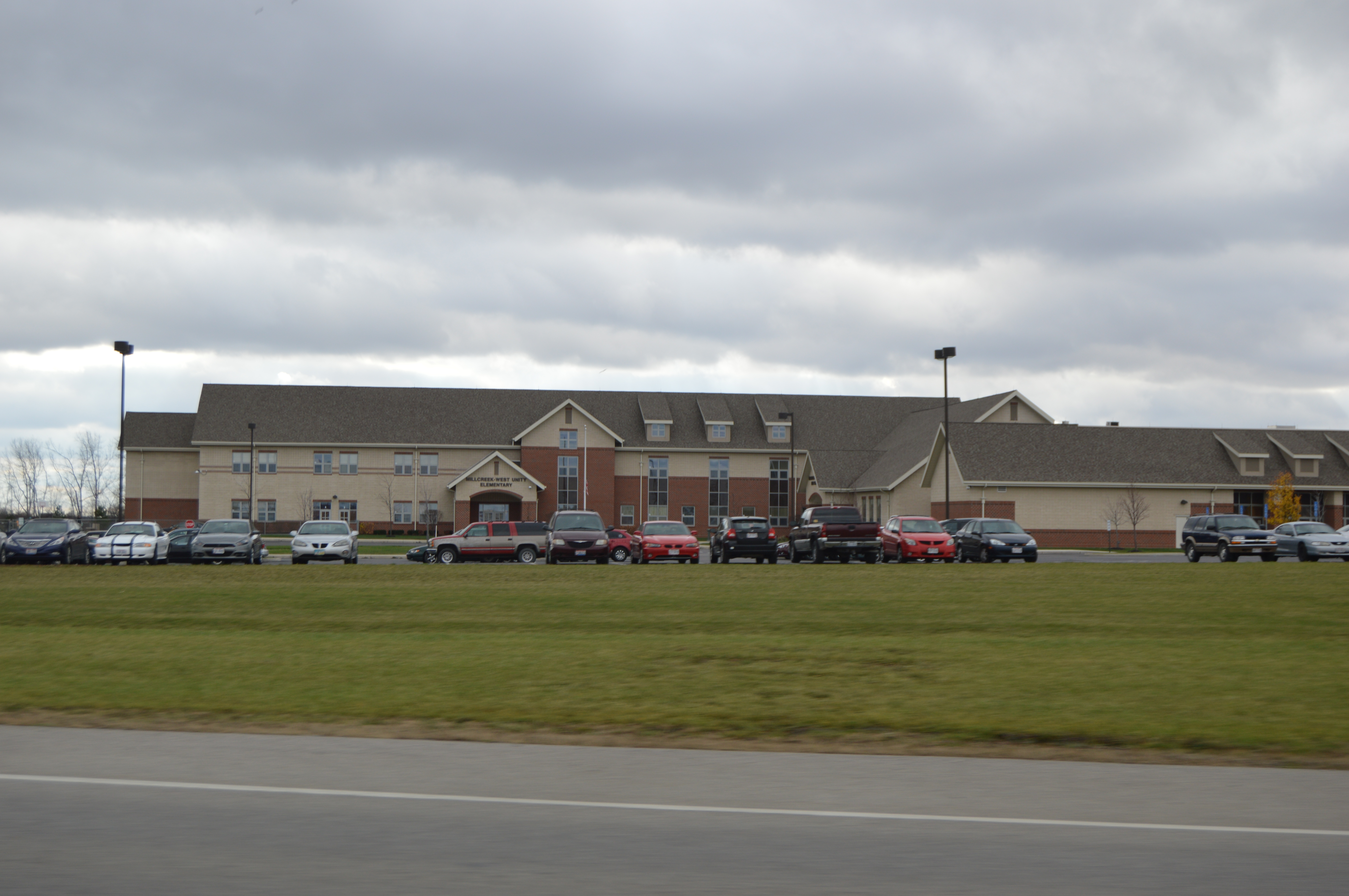 Main section of Hilltop High School, located at 1401 Jackson Street (U.S. Route 20 Alternate) just west of West Unity in Brady Township, Williams County, Ohio, United States.